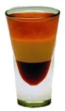 B-52 Cocktail in a shooter glass / B52, selber fotografiert